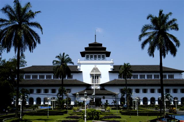 bandung